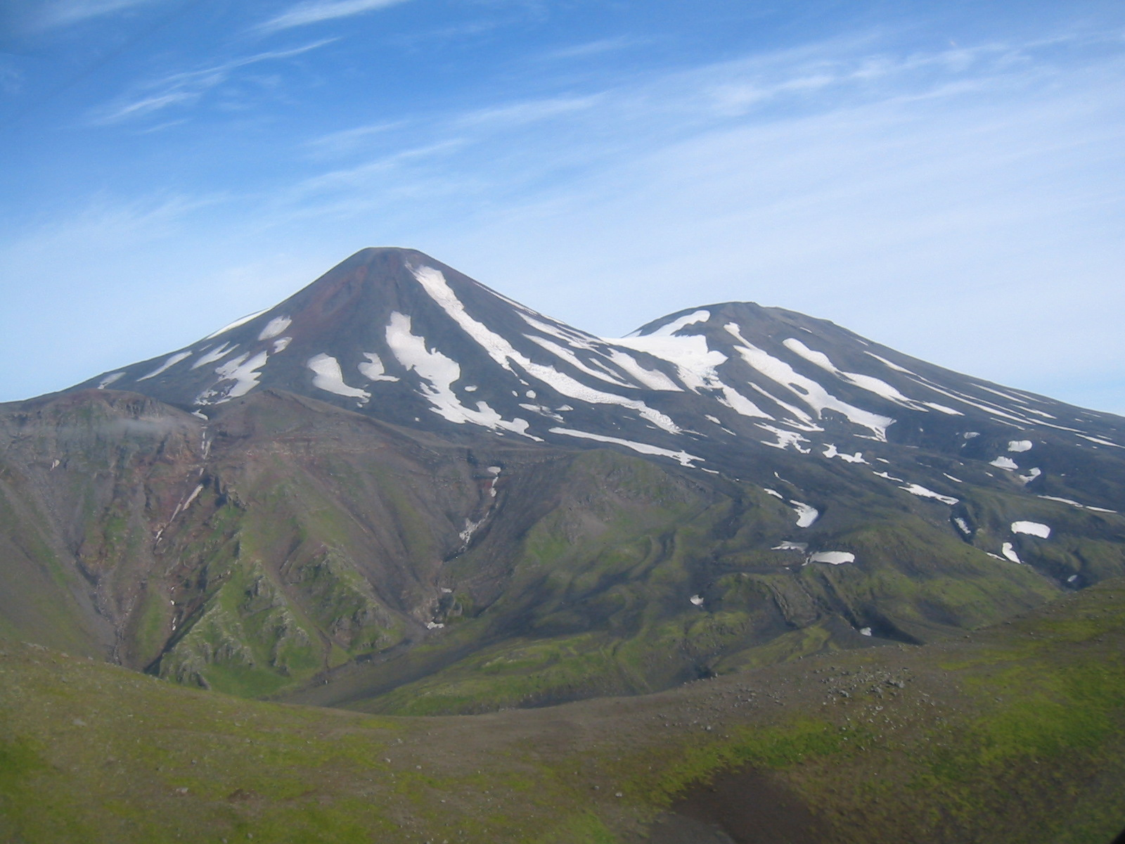 Tanaga and East Tanaga, from the south.